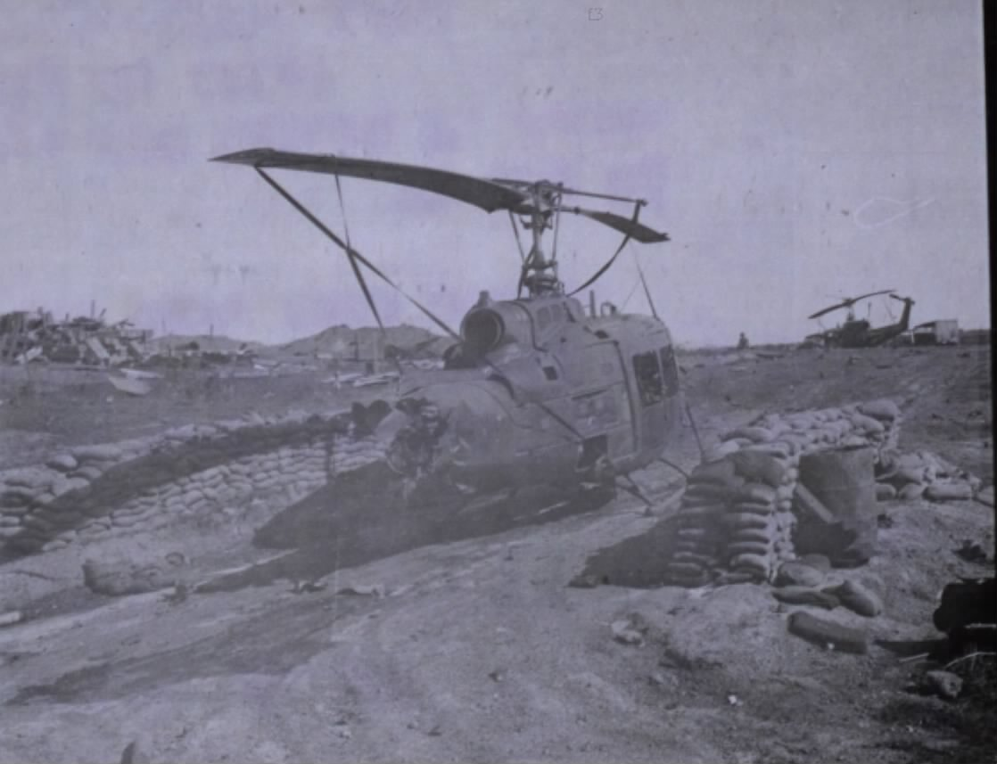 One of the many damaged 1st Cavalry helicopters damaged as a direct result of a NVA rocket on the 1st Cavalry ammo point.